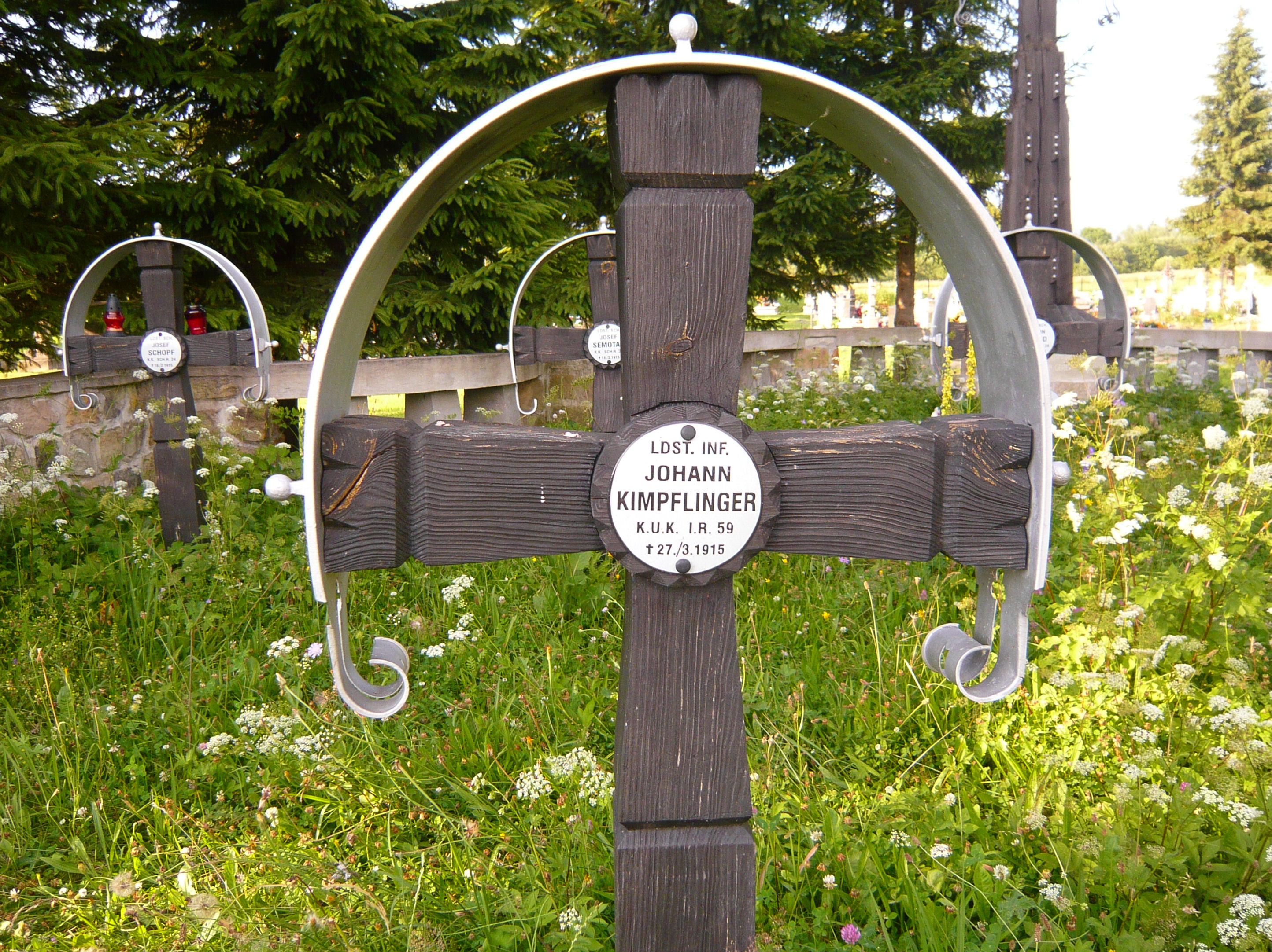 World War I Cemetery nr 56 in Smerekowiec